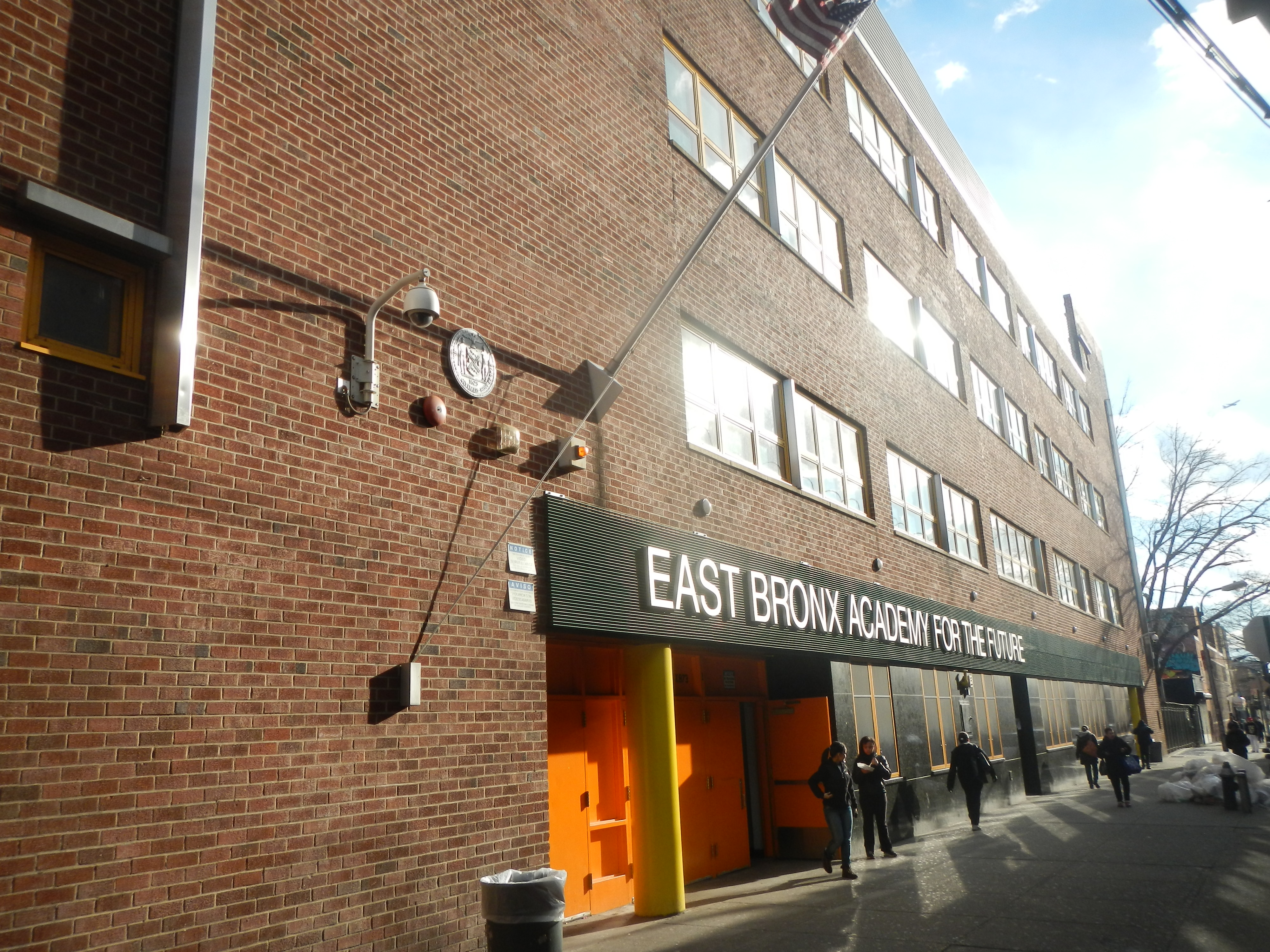 Looking south at school on a sunny afternoon.